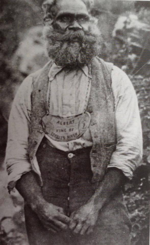 Aboriginal Man wearing a breastplate inscribed 'Albert King of Georges River'